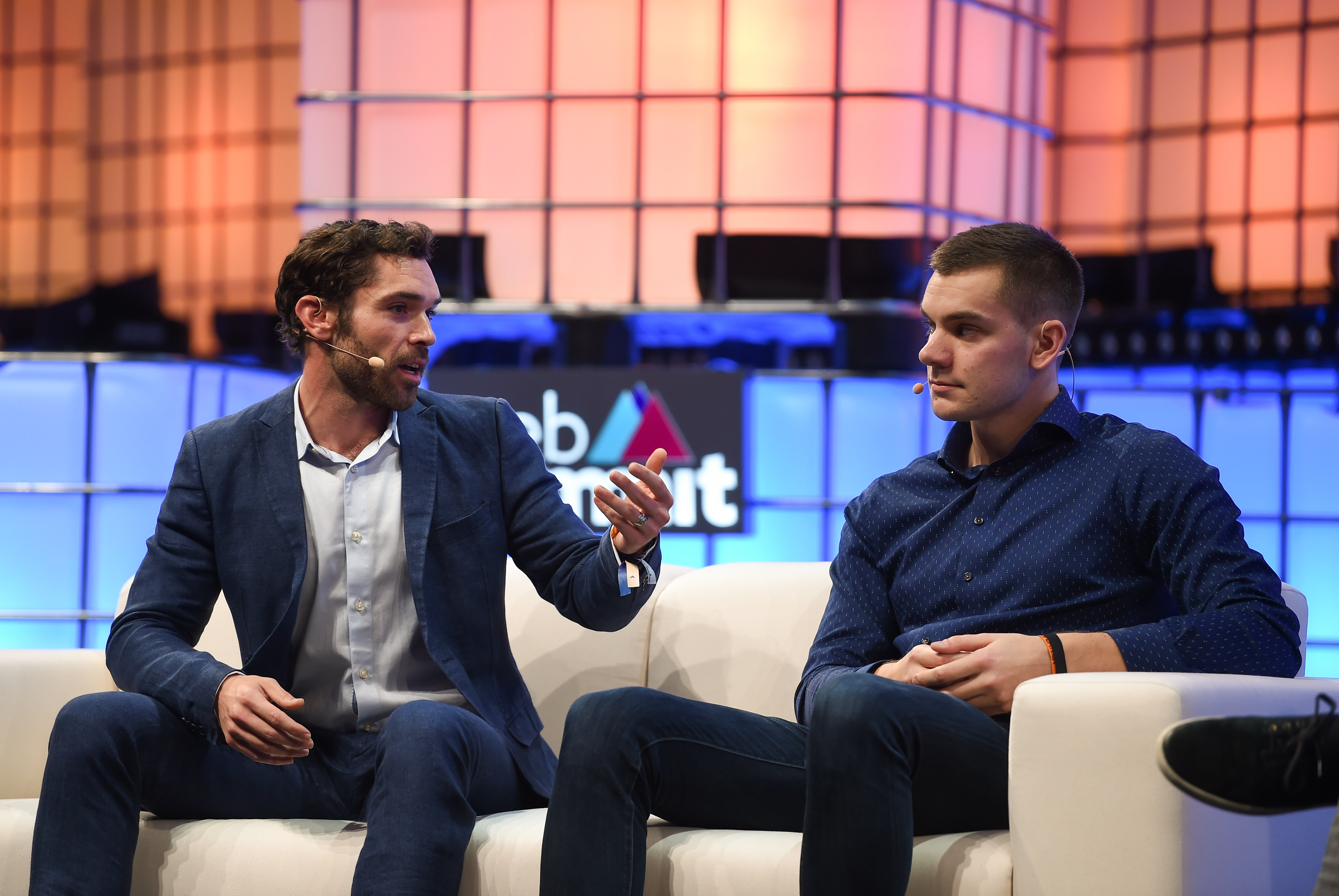 8 November 2018; Speakers, Caen Contee, Co-founder, Lime, left, and Markus Villig, Co-founder & CEO, Taxify, on Centre Stage during day three of Web Summit 2018 at the Altice Arena in Lisbon, Portugal. Photo by Diarmuid Greene/Web Summit via Sportsfile